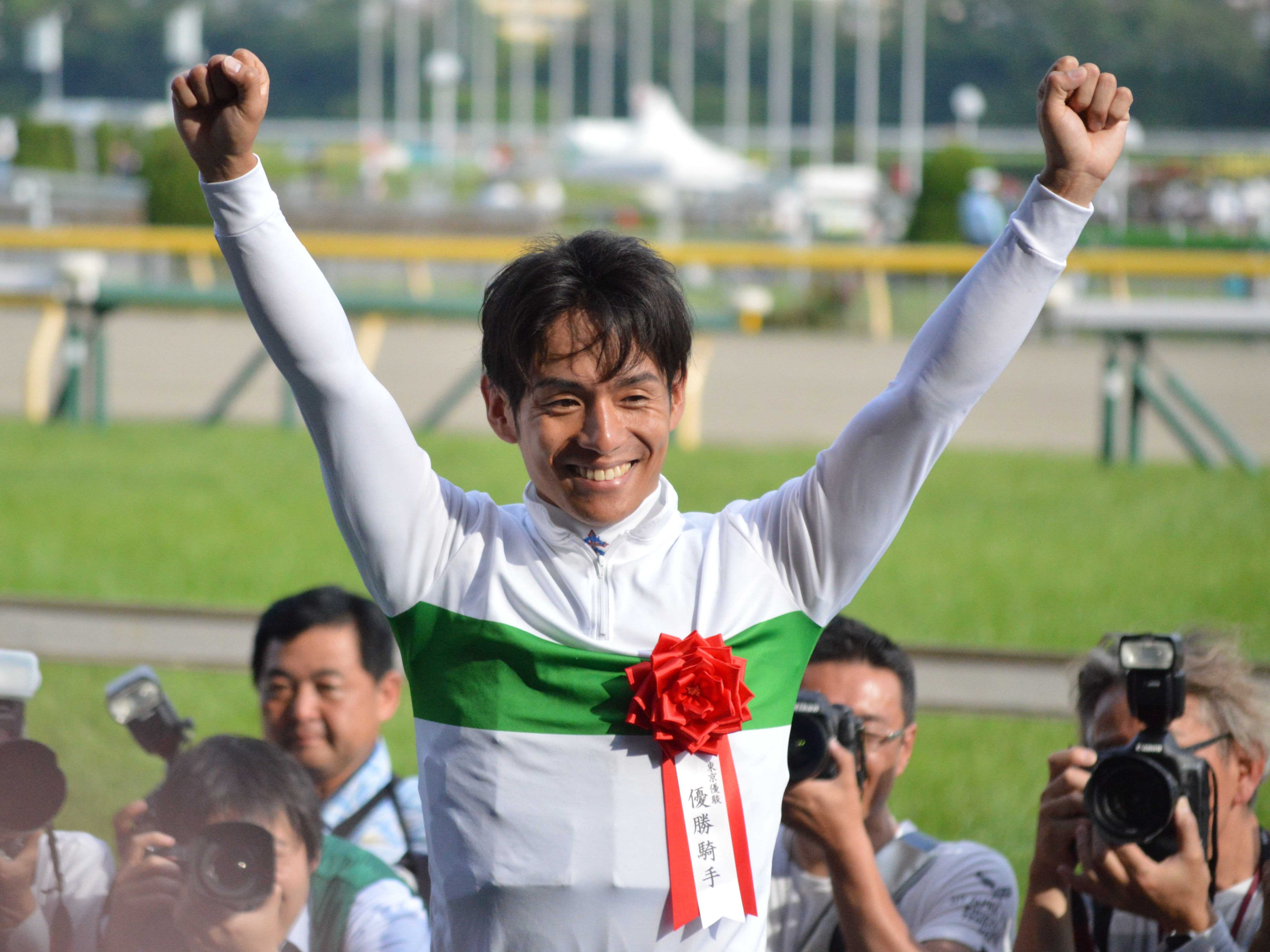 2019年日本ダービーにて勝利騎手インタビューを受ける浜中俊騎手Suguru Hamanaka Jockey receiving an interview at the Tokyo Yushun awards ceremony.